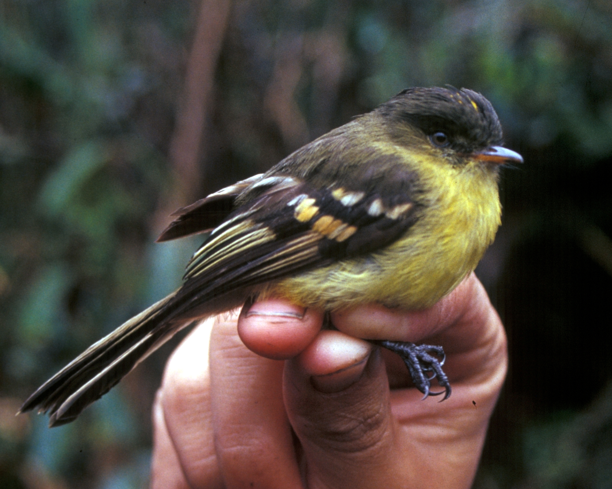 Orange-banded Flycatcher (Myiophobus lintoni) in Ecuador